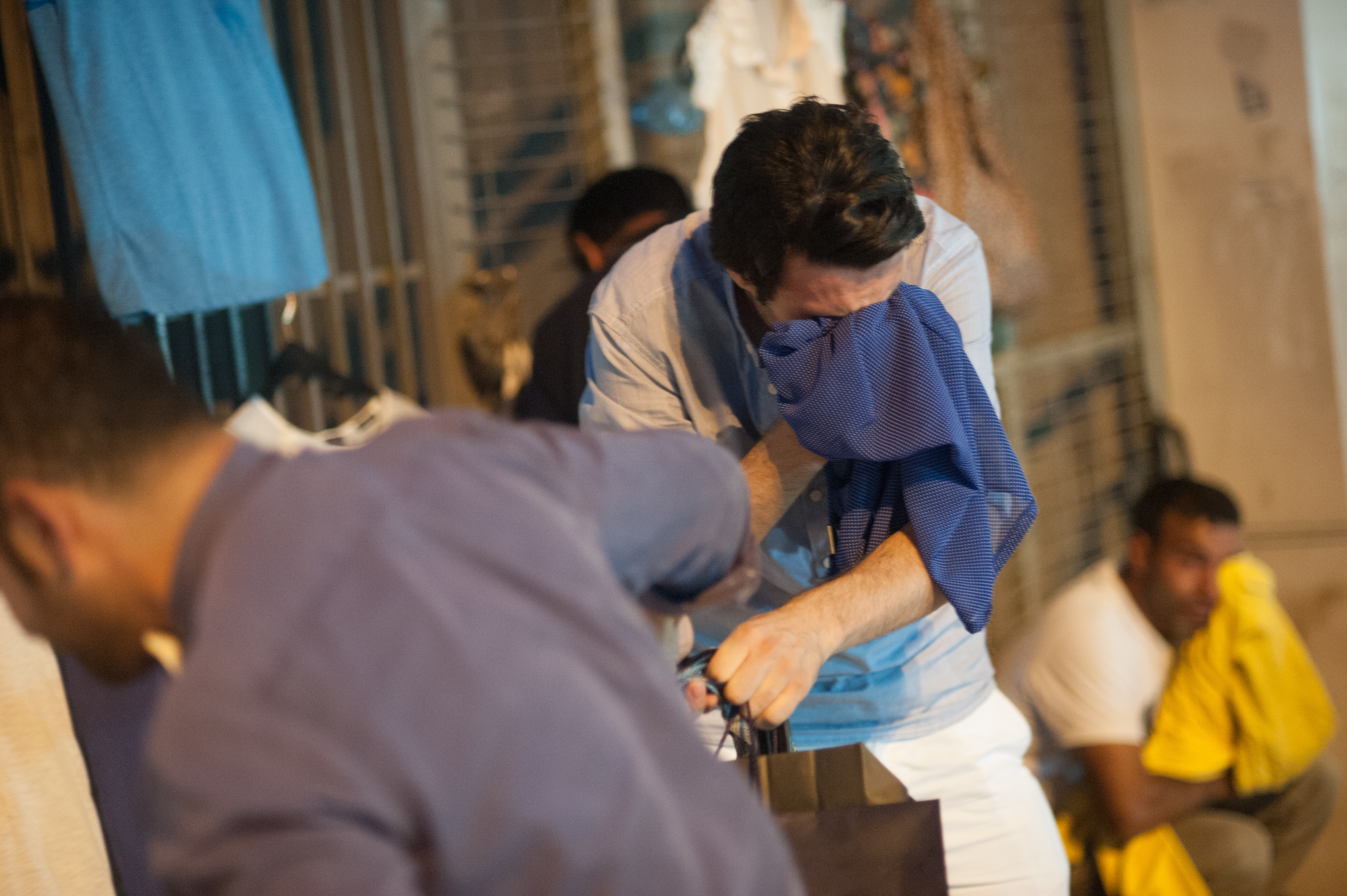 Teargass action during Gezi park protests. Events of June 16, 2013.